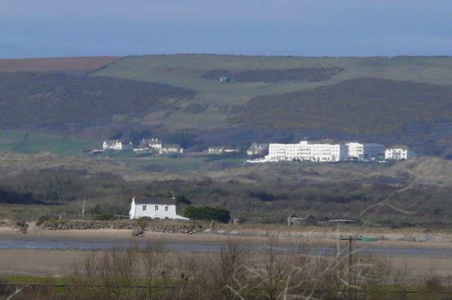 Saunton Sands Hotel seen from Instow